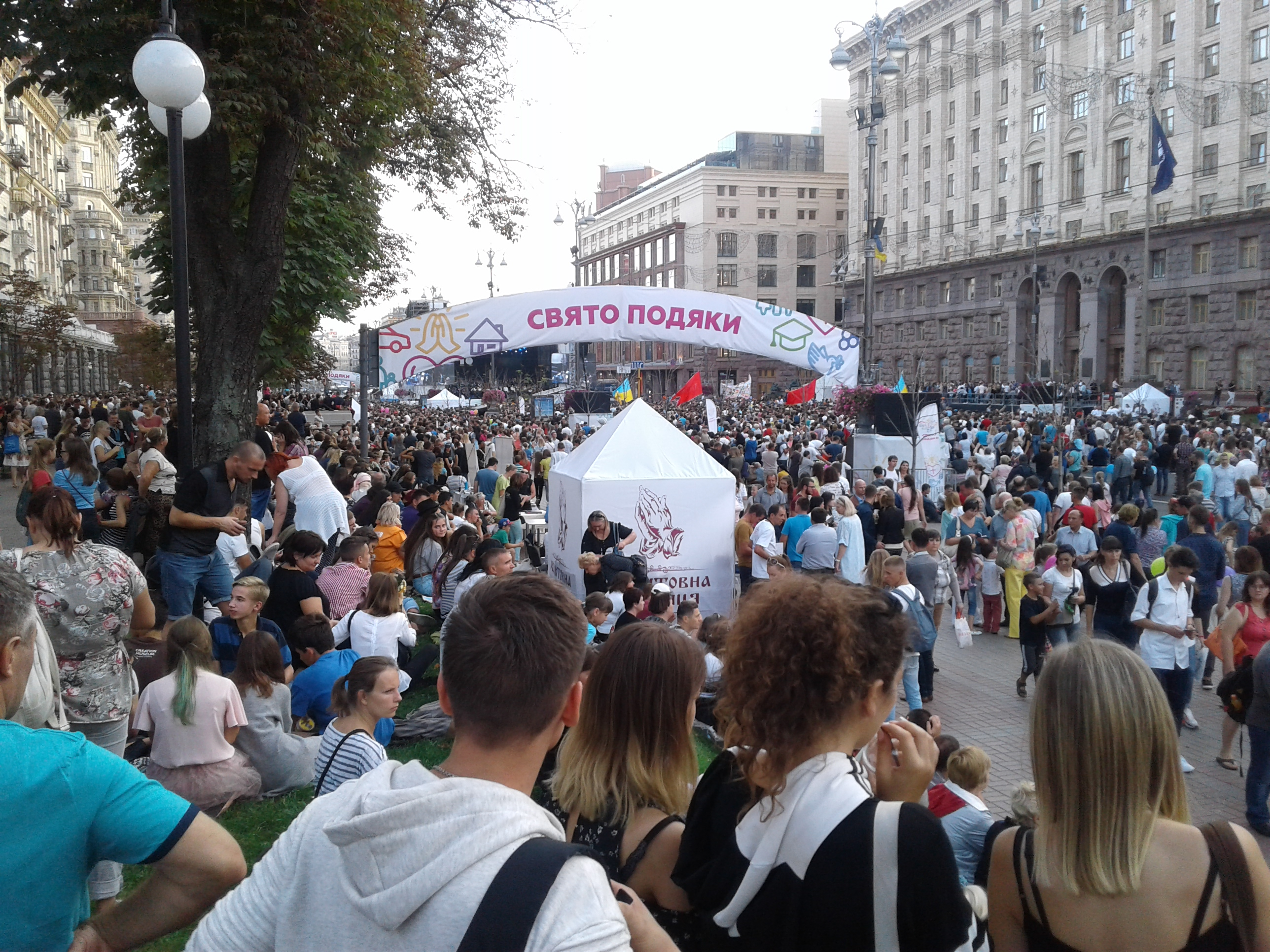 Thanksgiving in Ukraine, Kyiv. 09/17/2017